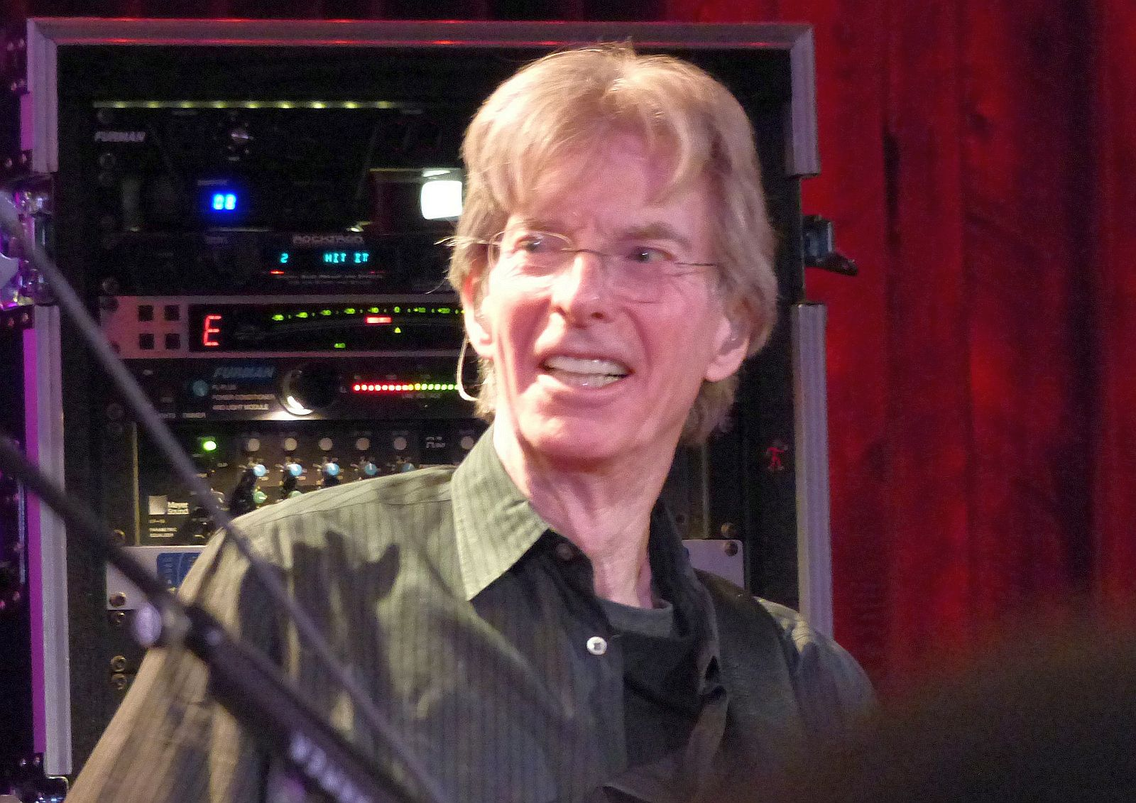 Phil Lesh performing at Terrapin Crossroads December 6, 2013